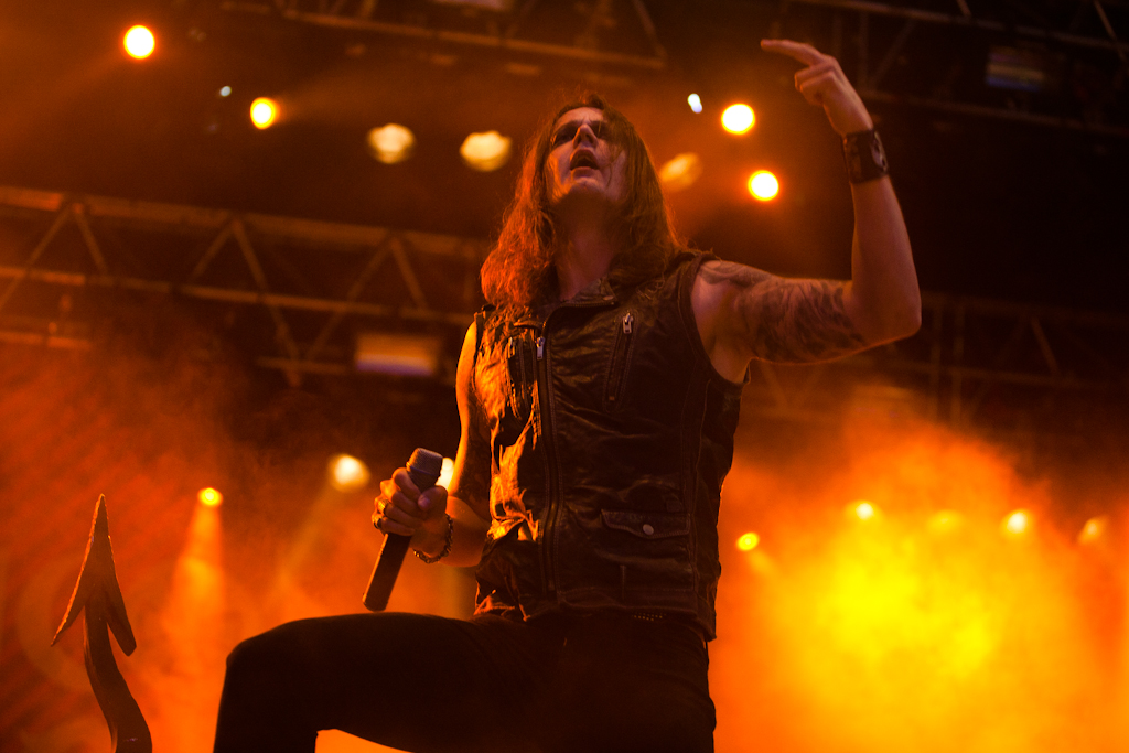 Satyr of Satyricon performing live at Getaway Rock Festival 2012.